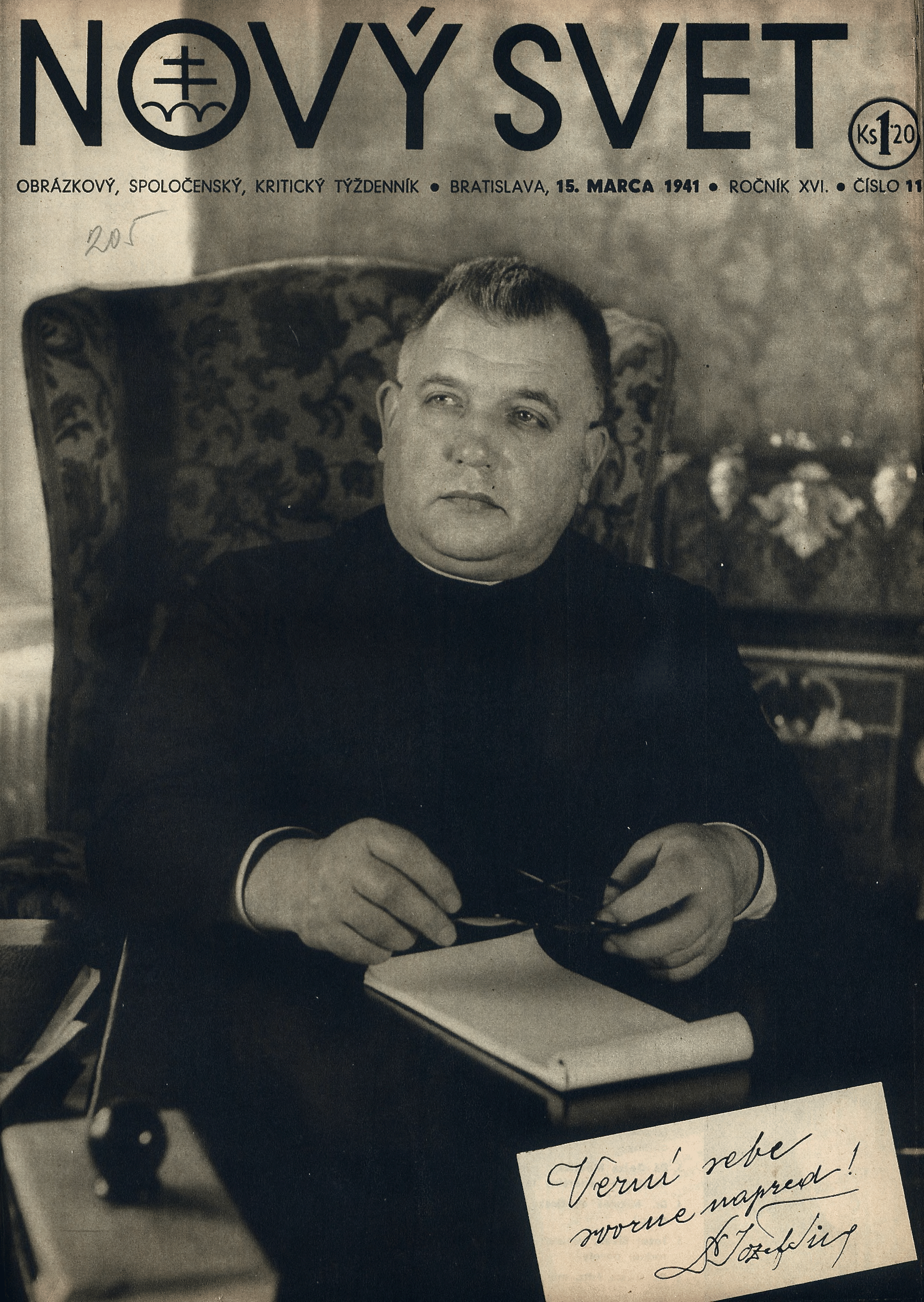 See title